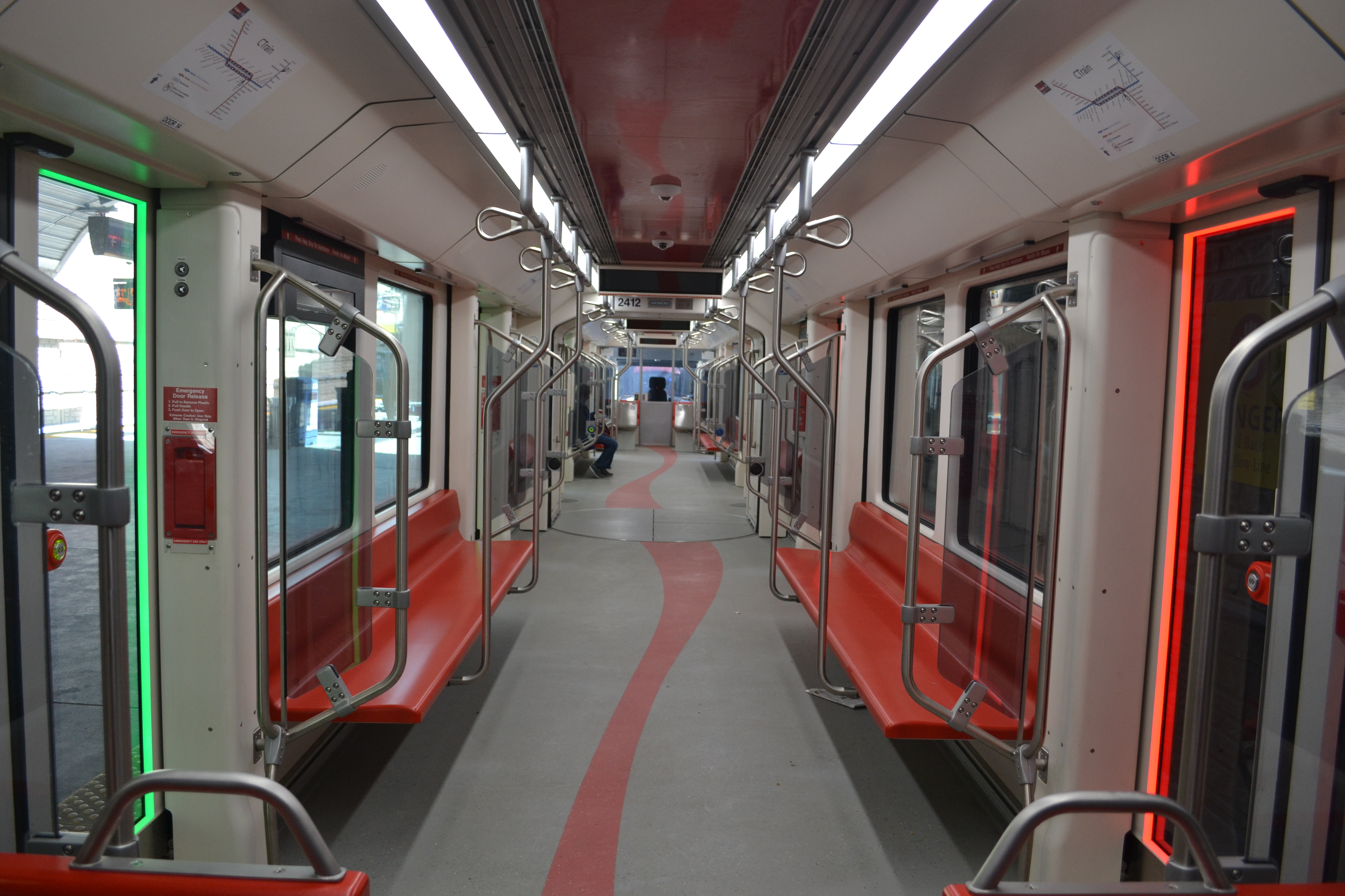 Inside a Calgary Transit S200 (#2412)